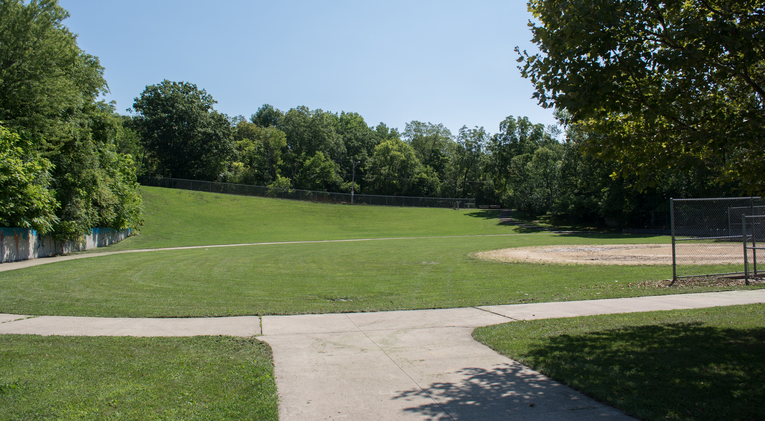 Looking east past the baseball diamond and the meadow at Carol McClendon Park, located at the eastern end of Beacon Avenue in the Union-Miles Park neighborhood of Cleveland, Ohio, in the United States. The park, originally just two acres, was created in July 1939 as Bisbee Park through the efforts of a neighborhood businessmen's club, the city, and the federal Works Progress Administration. The park received a complete overhaul in the late 1990s.It was renamed for Cleveland City Councilwoman Carol McClendon after her death in 2004.